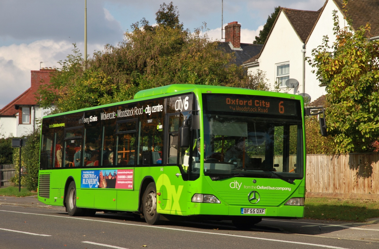 An Oxford Bus Company bus in City6 branded livery on route 6 in Woodstock Road, Oxford. The bus is a Mercedes-Benz Citaro O530, registration mark BF55 OXF, fleet number 840.